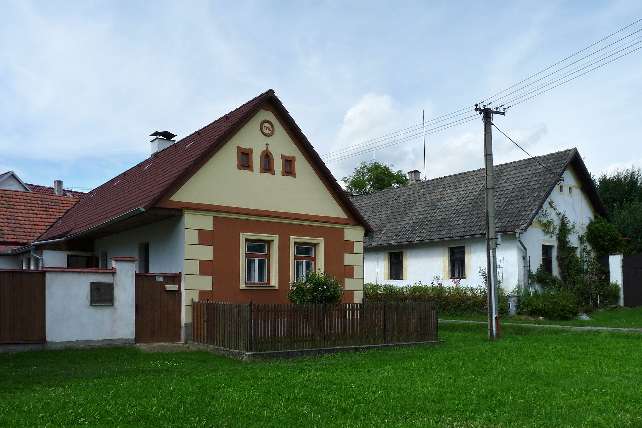 House No 12 in the village of Kajetín, part of the Choustník municipality in Tábor District, Czech Republic. Česky: Dům č.p. 12 ve vsi Kajetín, součásti obce Choustník v okrese Tábor.